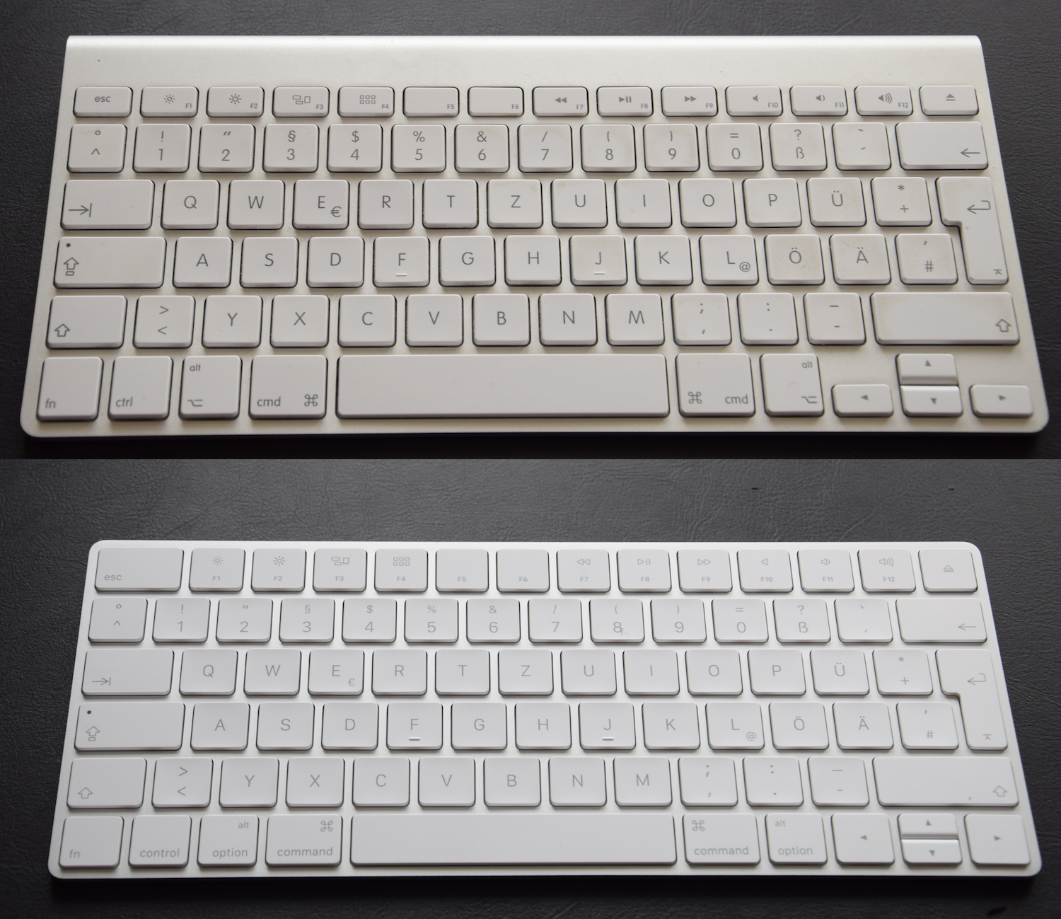 Apple Wireless Keyboards of 2nd (above) and 3rd generation (below) seen from top-view